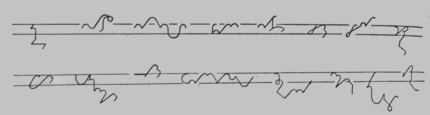 Example of Martí Shorthand writing